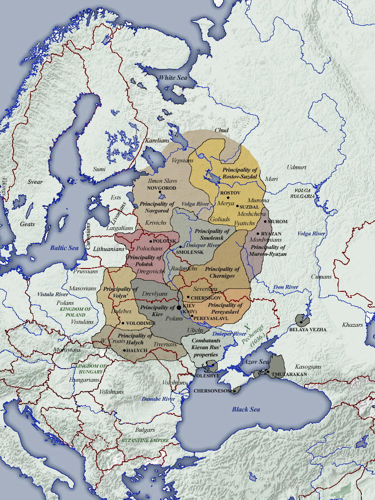 Principalities of the later Kievan Rus (after the death of Yaroslav I in 1054). (the background map is a modern map of Europe showing current national boundaries, and modern artificial waterways and reservoirs in Russia)